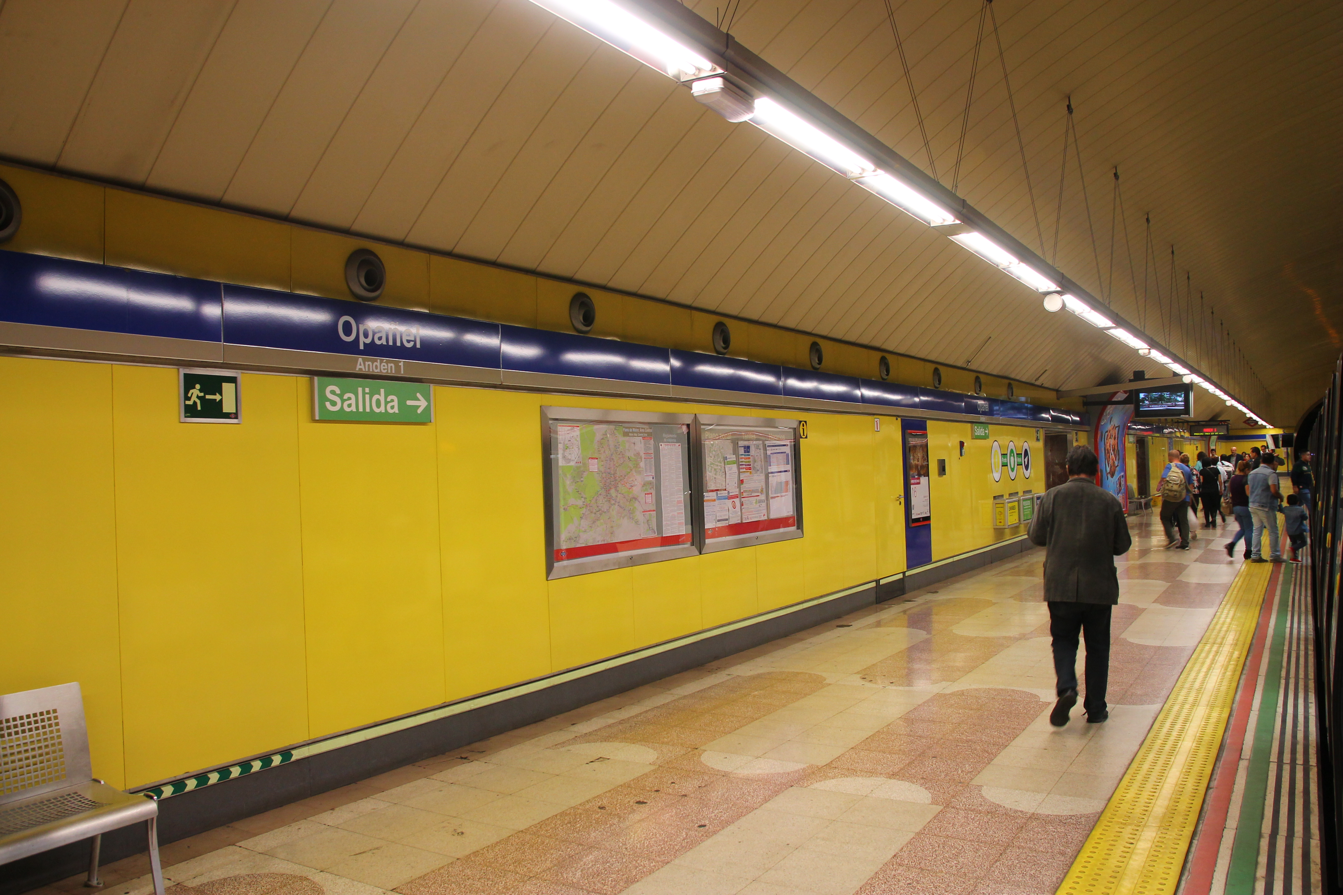 Estación de Opañel